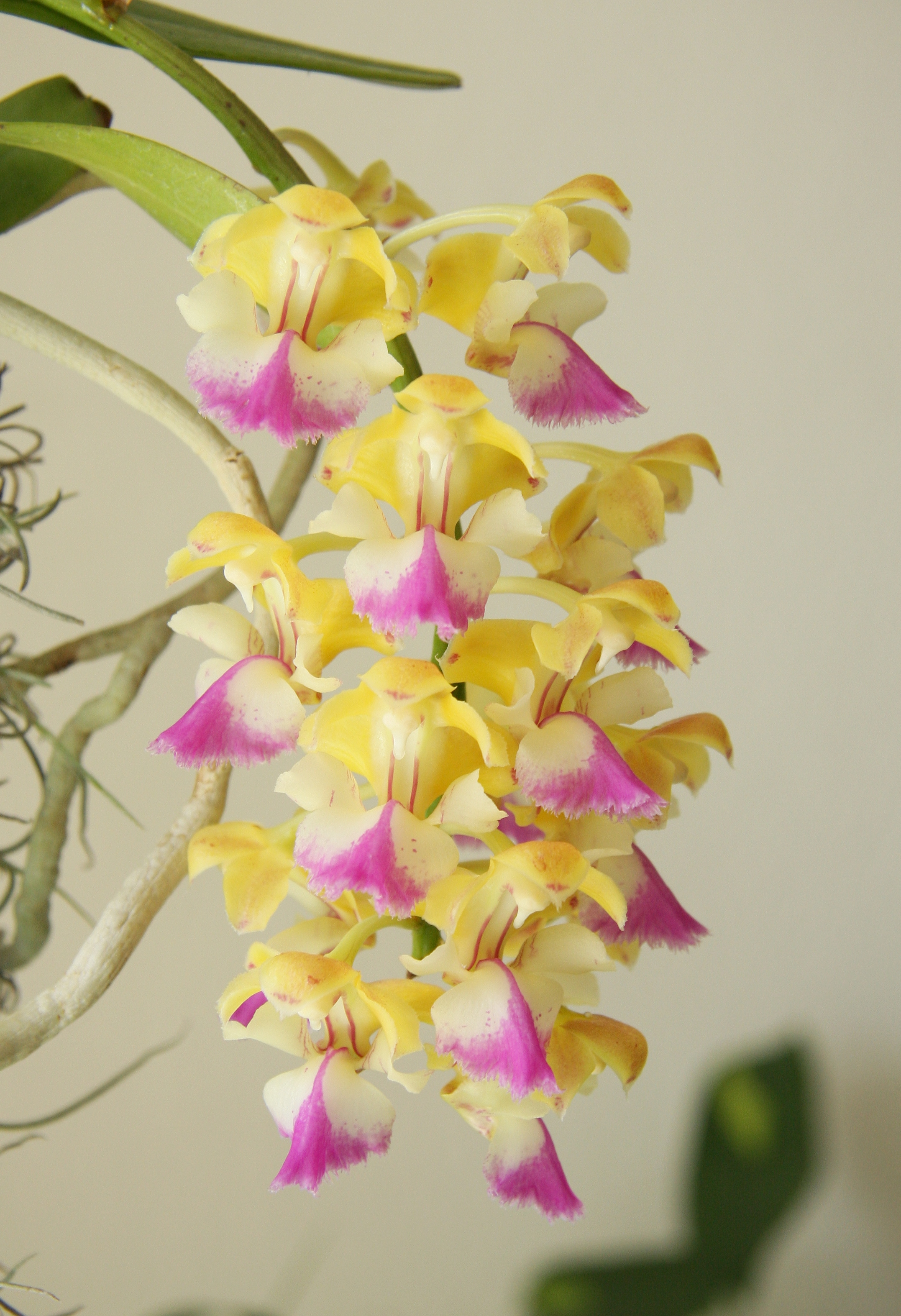 Aerides houlletiana